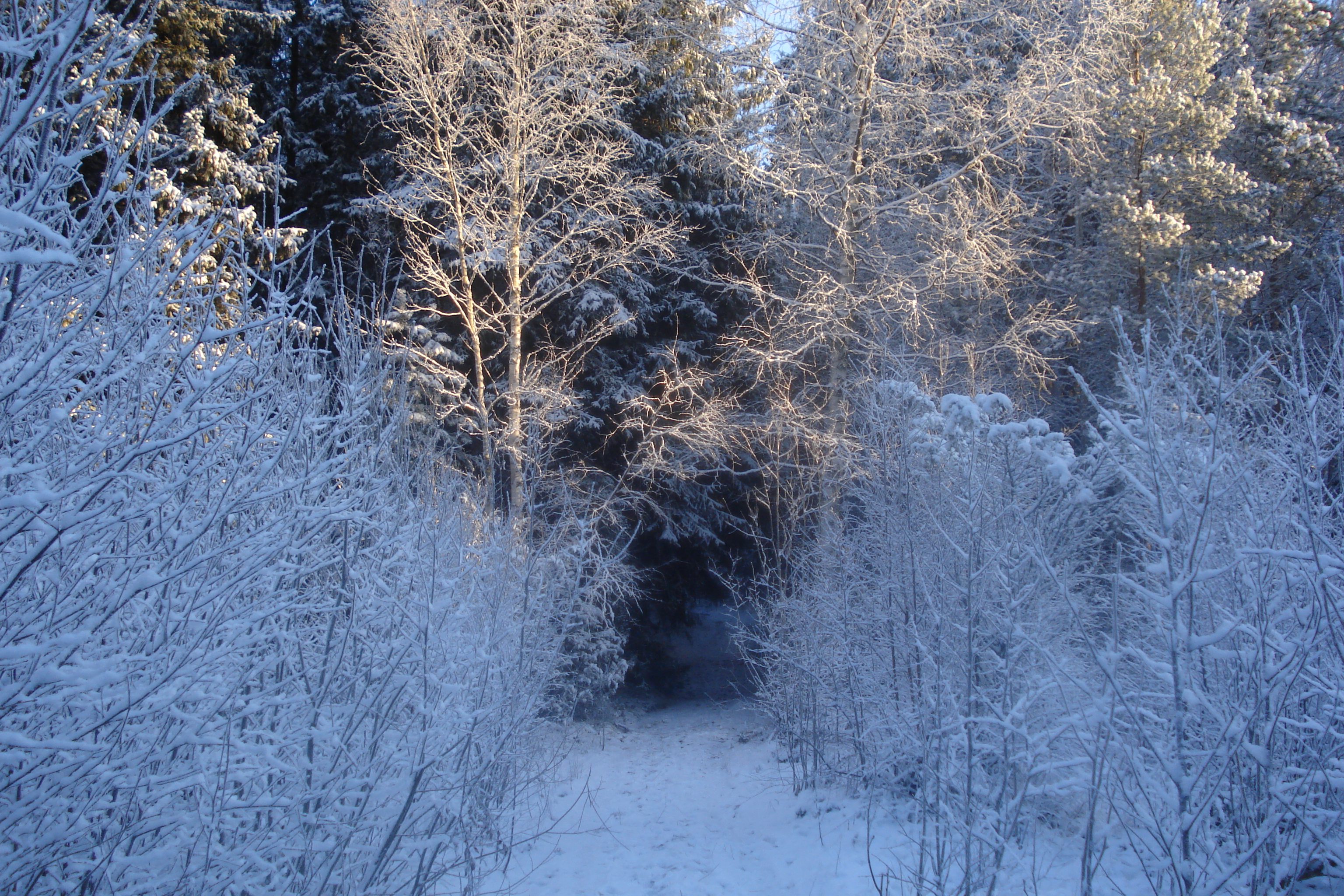 Boreal forest in Mietoinen, Finland